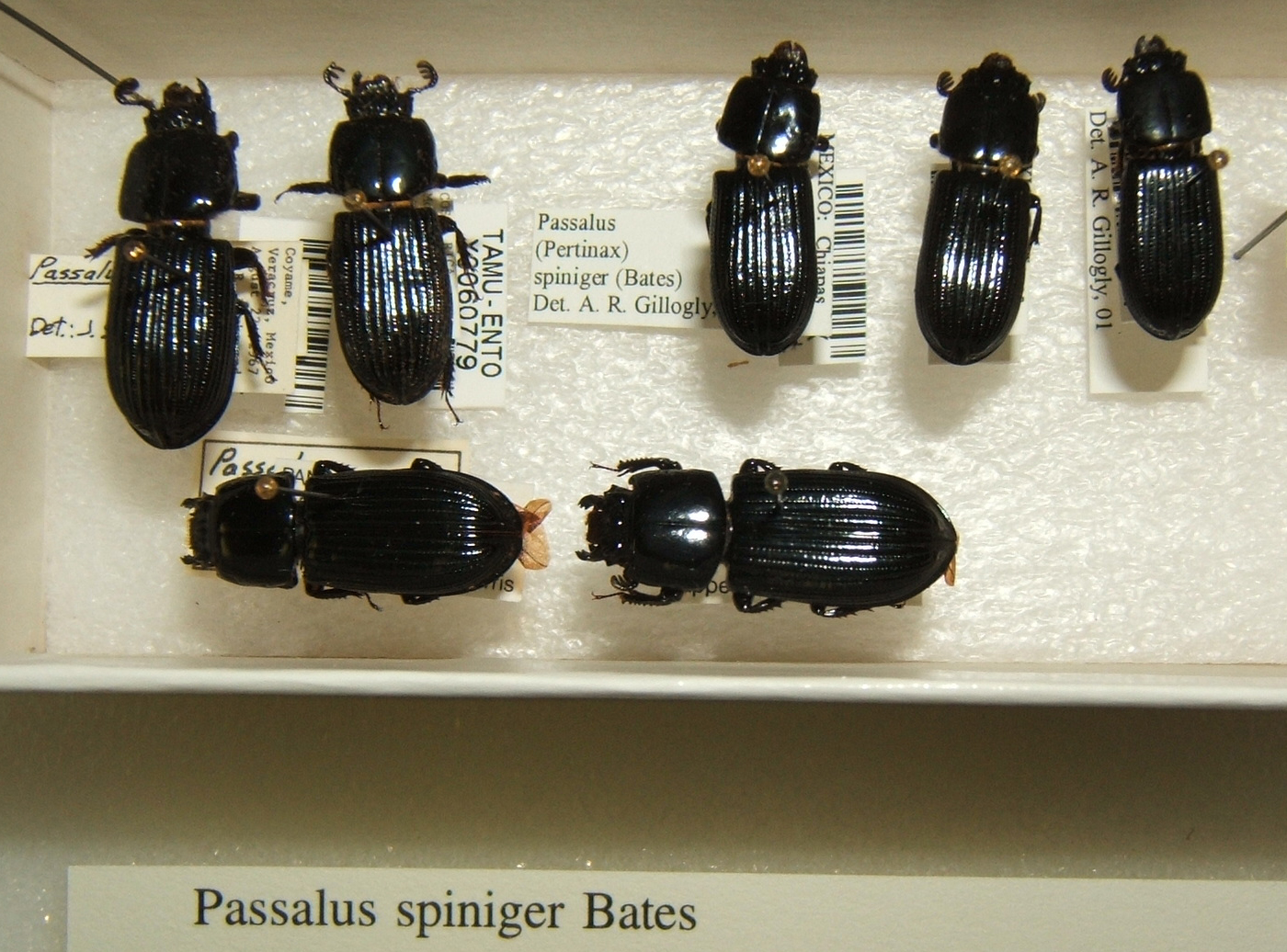 Passalus spiniger adult taken by Shawn Hanrahan at the Texas A&M University Insect Collection in College Station, Texas.